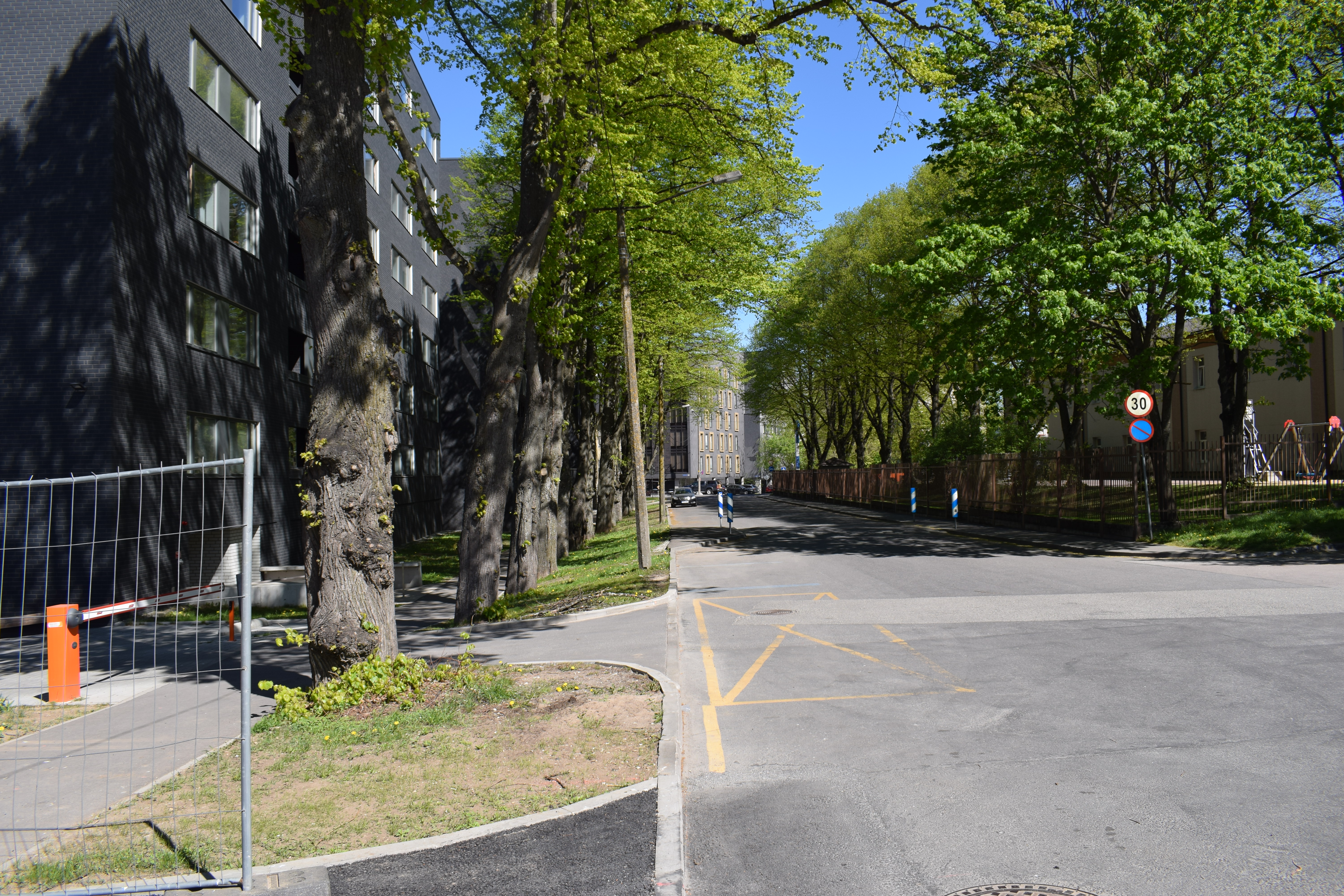 Staadioni street